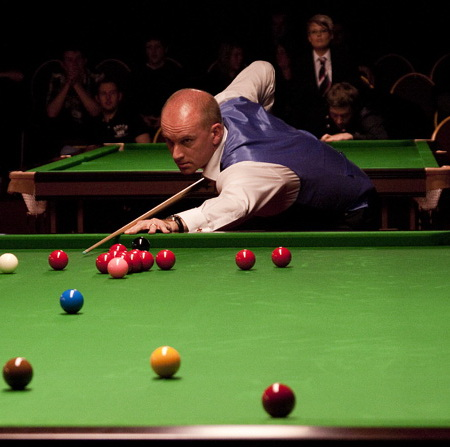 English professional snooker player Peter Ebdon